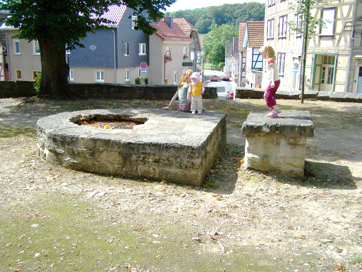 Playing childs at the village green in Diedorf.